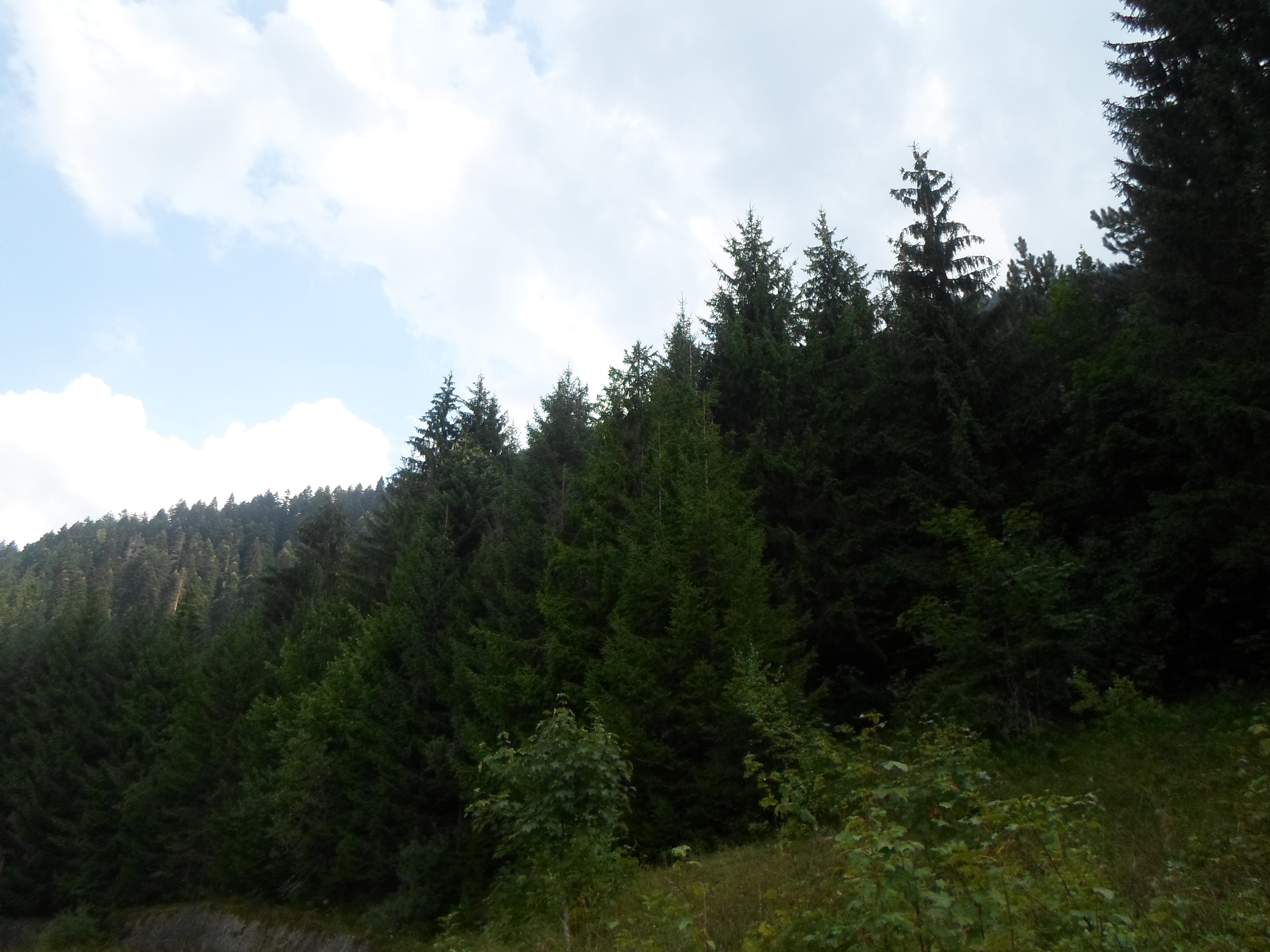 Cicelj, Cajnice Сликава е подигната во рамките на проектот „По трагата на душата 2015“.